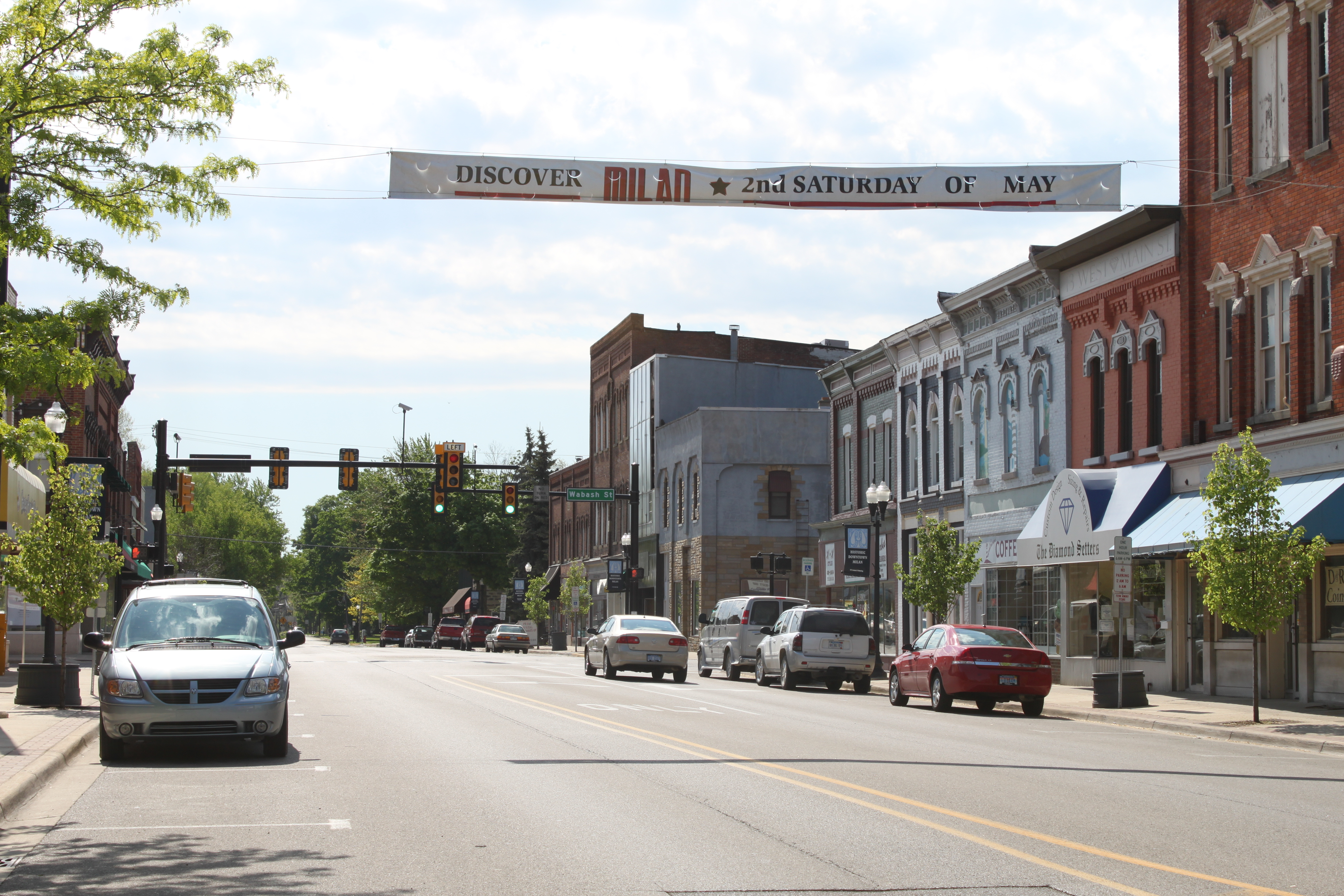 Main St., Downtown Milan Michigan